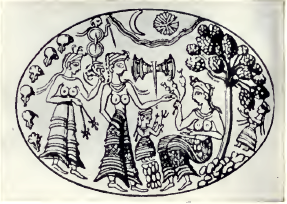 Gold signet from acropolis treasure, Mycenae, showing the goddess beneath a sacred tree, with adorants and sacred emblems.J. H. S. xxi, 108, Fig. 4.Illustration from 1911 Encyclopædia Britannica, article Aegean Civilization.